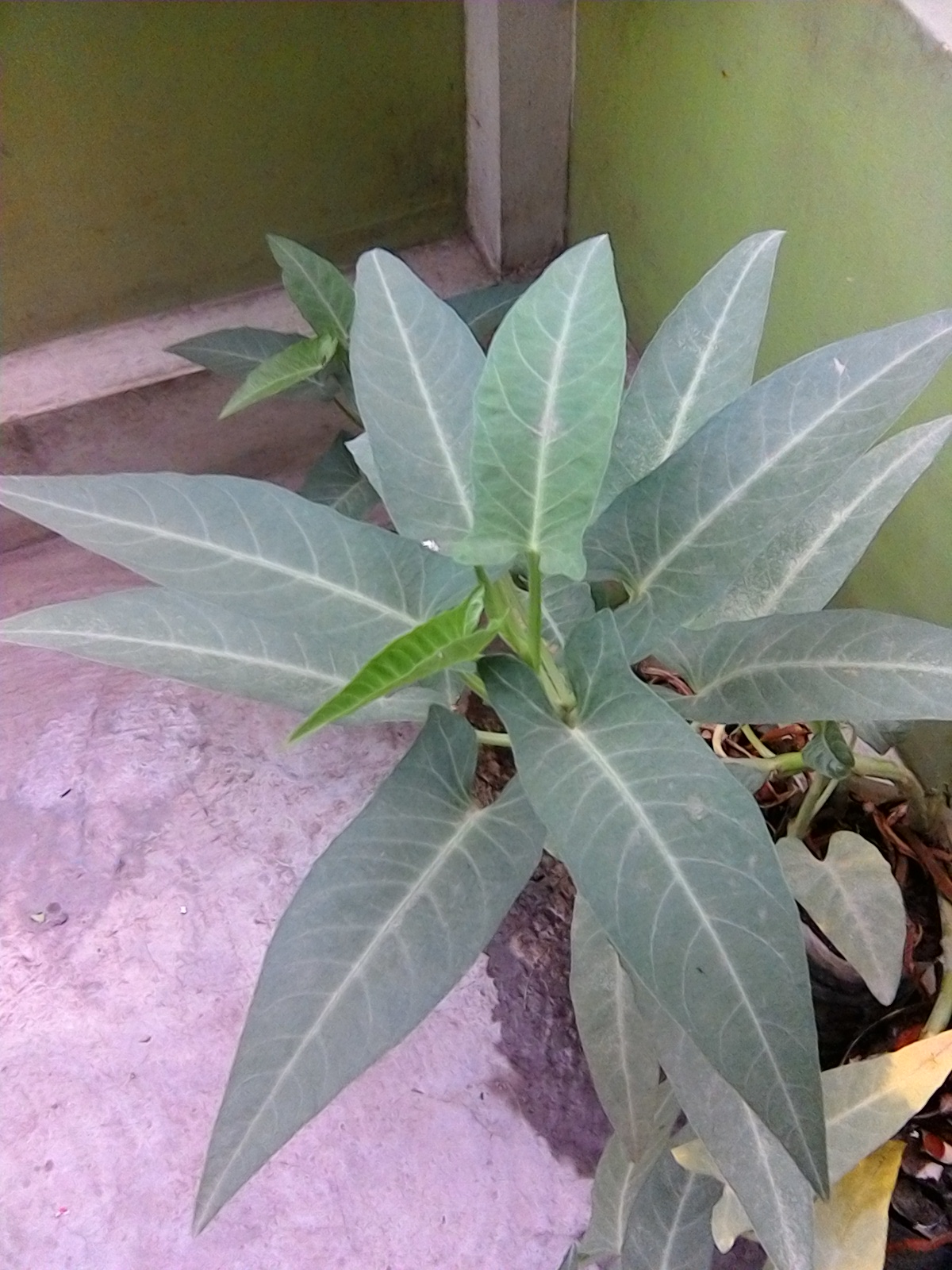 ipomoea aquatica Jawa: ꦮꦶꦠ꧀ ꦠꦸꦮꦸꦲꦤ꧀ ꦏꦁꦏꦸꦁ ꦢꦶꦠꦤ꧀ꦢꦸꦂ ꦲꦶꦁ ꦥꦺꦴꦠ